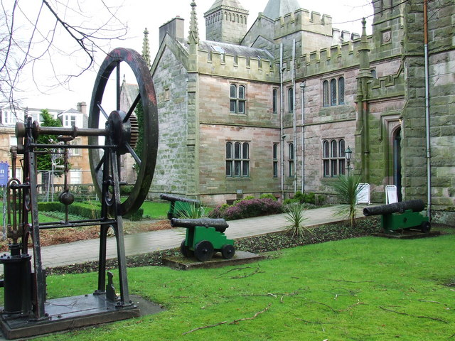 Mclean Museum & Art Gallery in Greenock, Scotland. The device in the foreground is a single cylinder steam engine which drove water pumps at James Watt Dock 297683. See 322512 for information regarding the cannons.